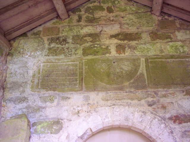 Saxon sundial at St. Gregory's Minster, Kirkdale, near Kirkbymoorside, Vale of Pickering, North Yorkshire, England